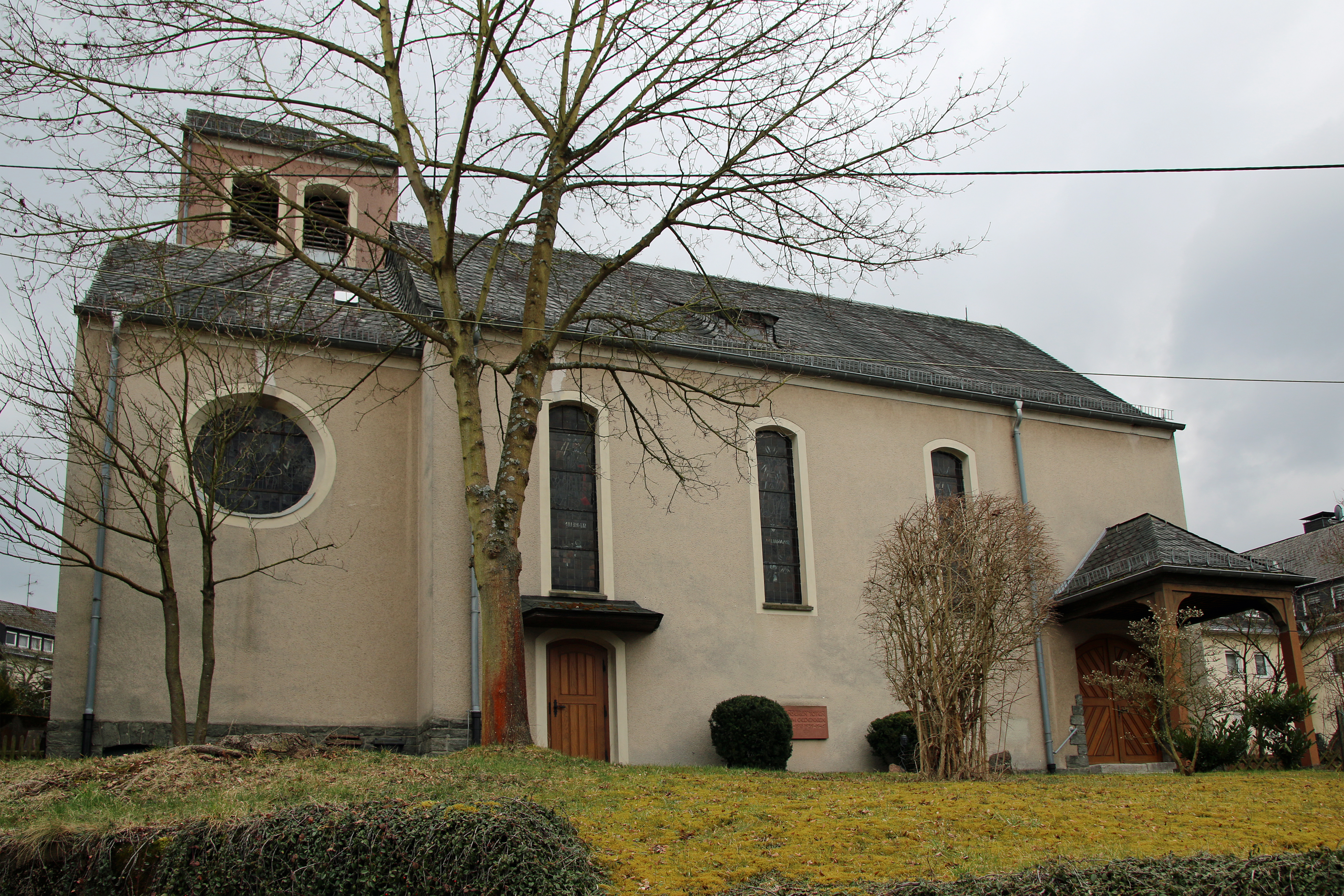 St. Erasmus church in Koblenz